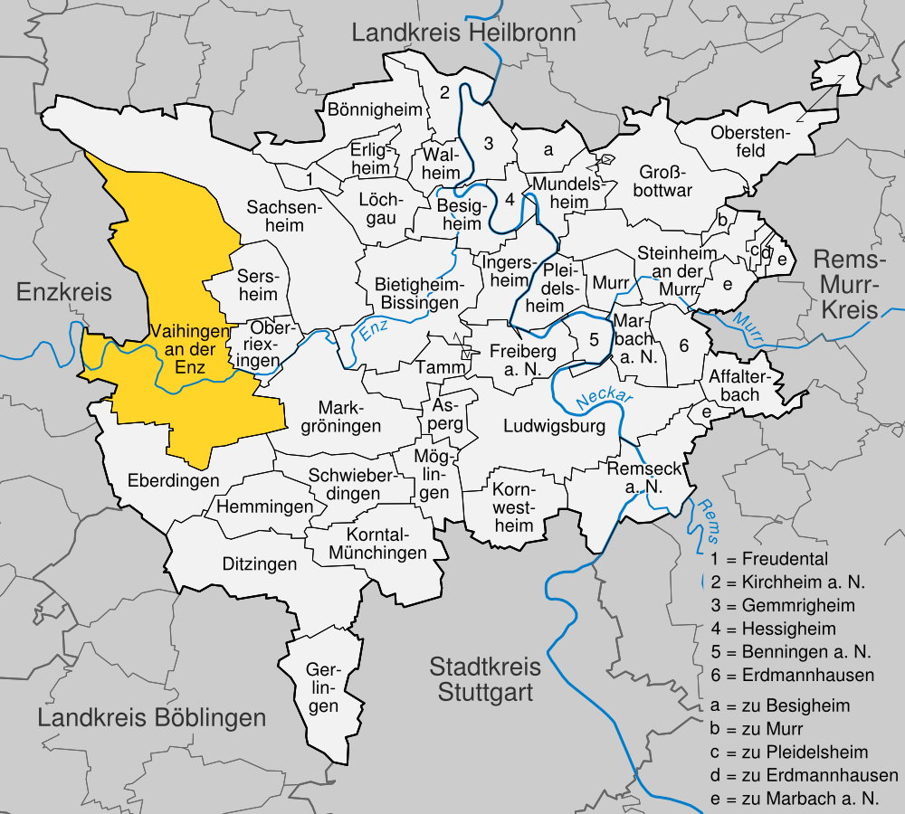 position of Vaihingen within distict of Ludwigsburg, Baden-Württemberg, Germany